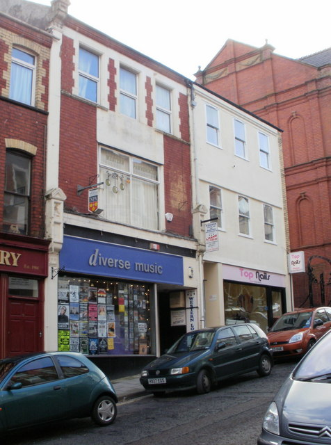 Diverse Music, Charles Street, Newport An independent music shop and the UK's biggest vinyl mail order business. Situated on Charles Street, it stocks new releases on both CD and vinyl and sells tickets for the majority of local gigs.